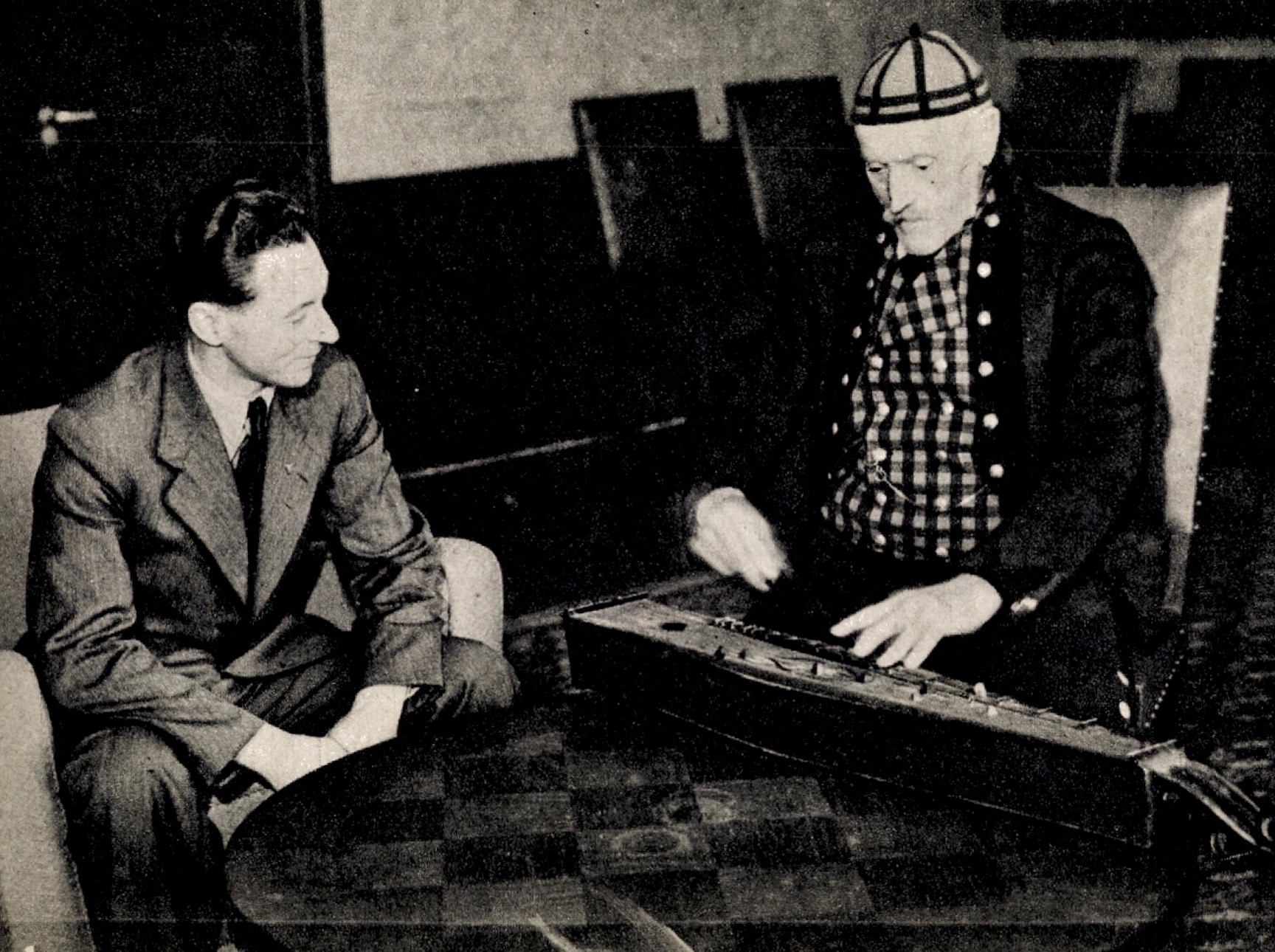 Photo from "Liv i kamp for Norge" ("Marie og Gulbrand Lunde Et liv i kamp for Norge"), a memorial book about Norwegian couple Marie (1907–1942) and Gulbrand Lunde (politician, 1901–1942), published by "Rikspropagandaledelsen" (propaganda department of Nasjonal Samling, Norwegian fascist party 1933–1945) and "Blix forlag" in Oslo, Norway 1942.Cropped JPG from PDF (a low resolution digitized version) of the book downloaded from National Library of Norway's site NO-OsNB (999824600824702202)